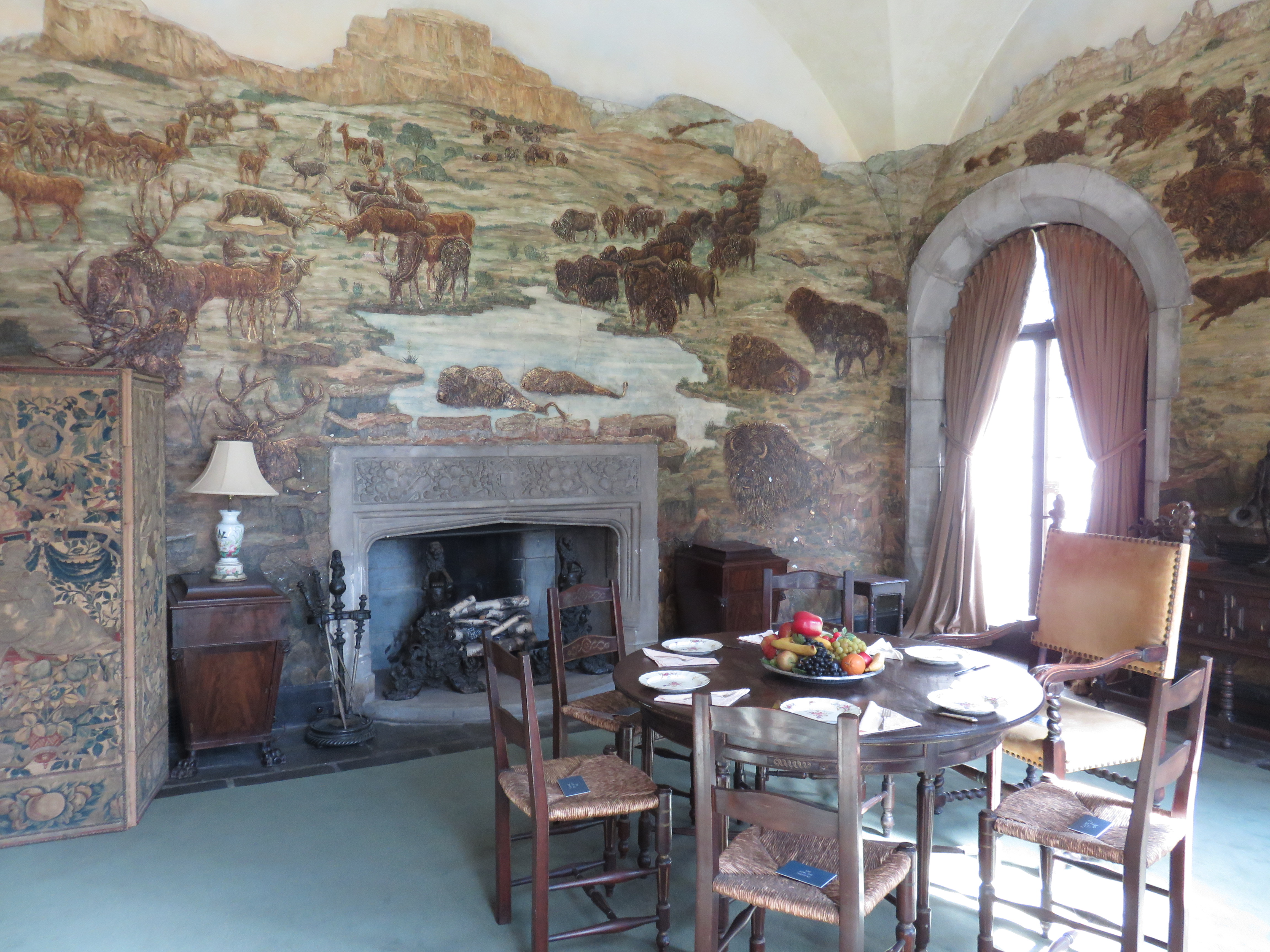 Buffalo Room in Coe Hall at Planting Fields Arboretum State Historic Park in Upper Brookville, New York in 2016